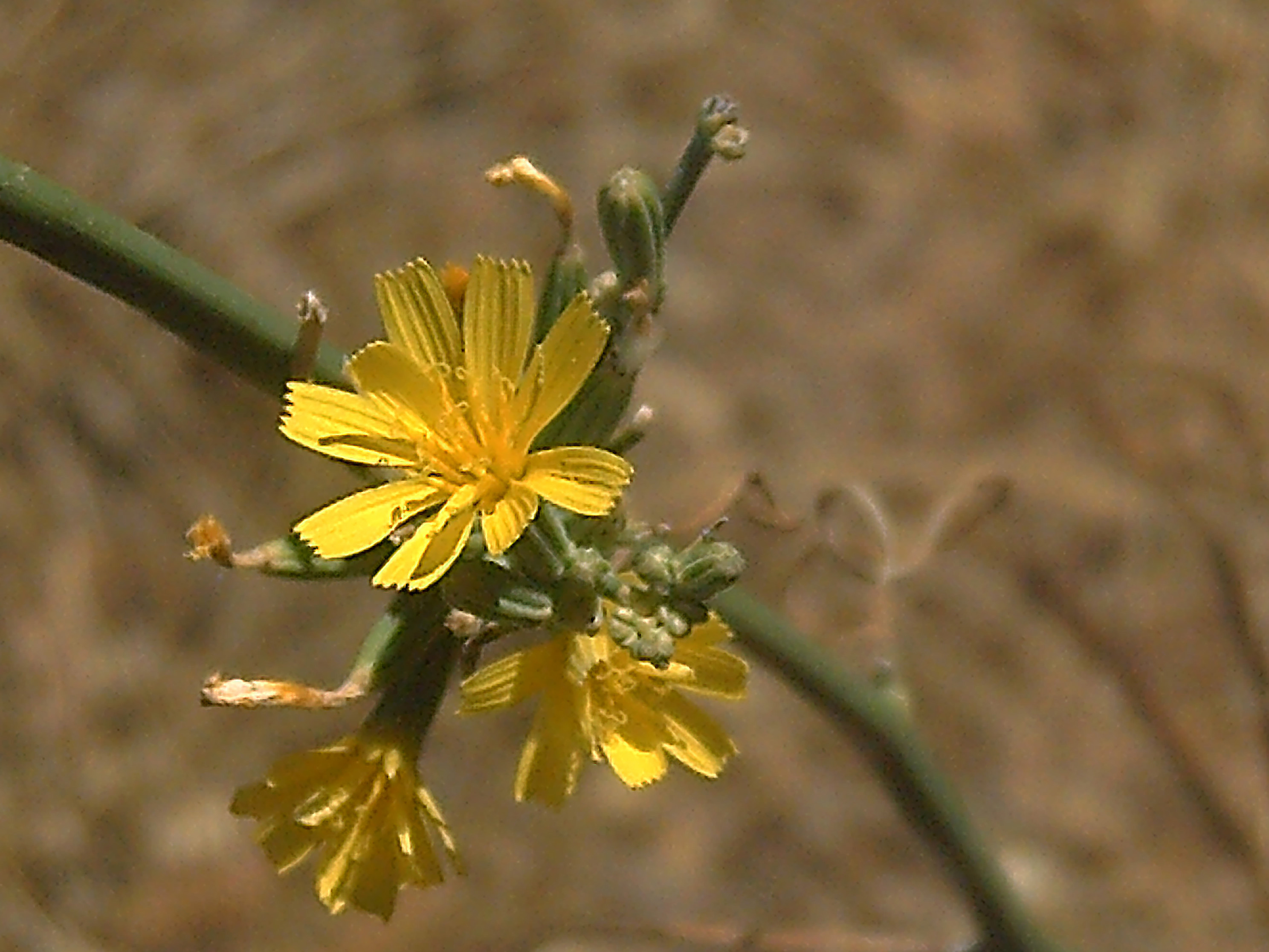 Chondrilla juncea close up, Fuente San Lorenzo, Sierra Madrona, Spain